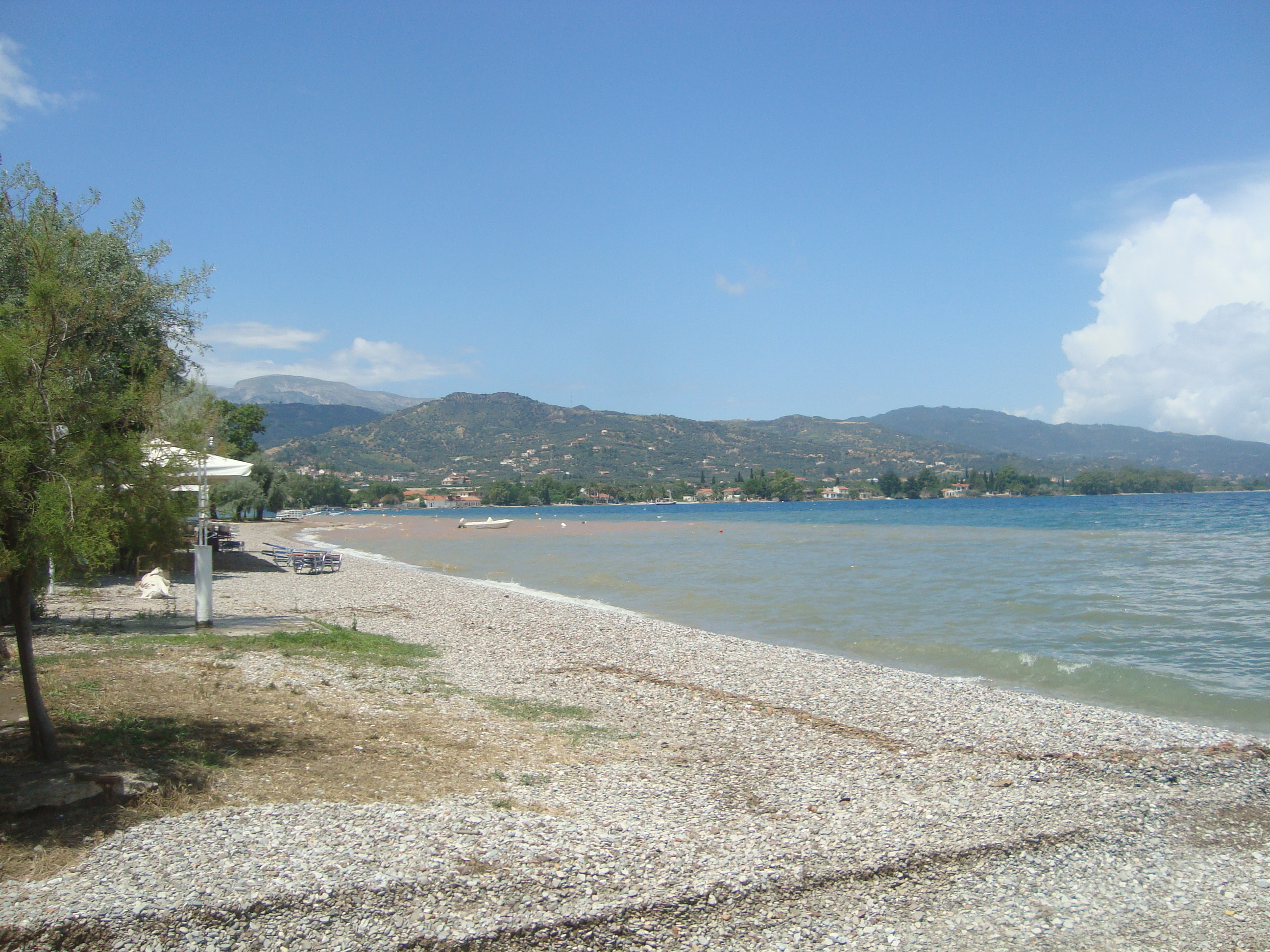 Akoli beach Rododafni Achaias